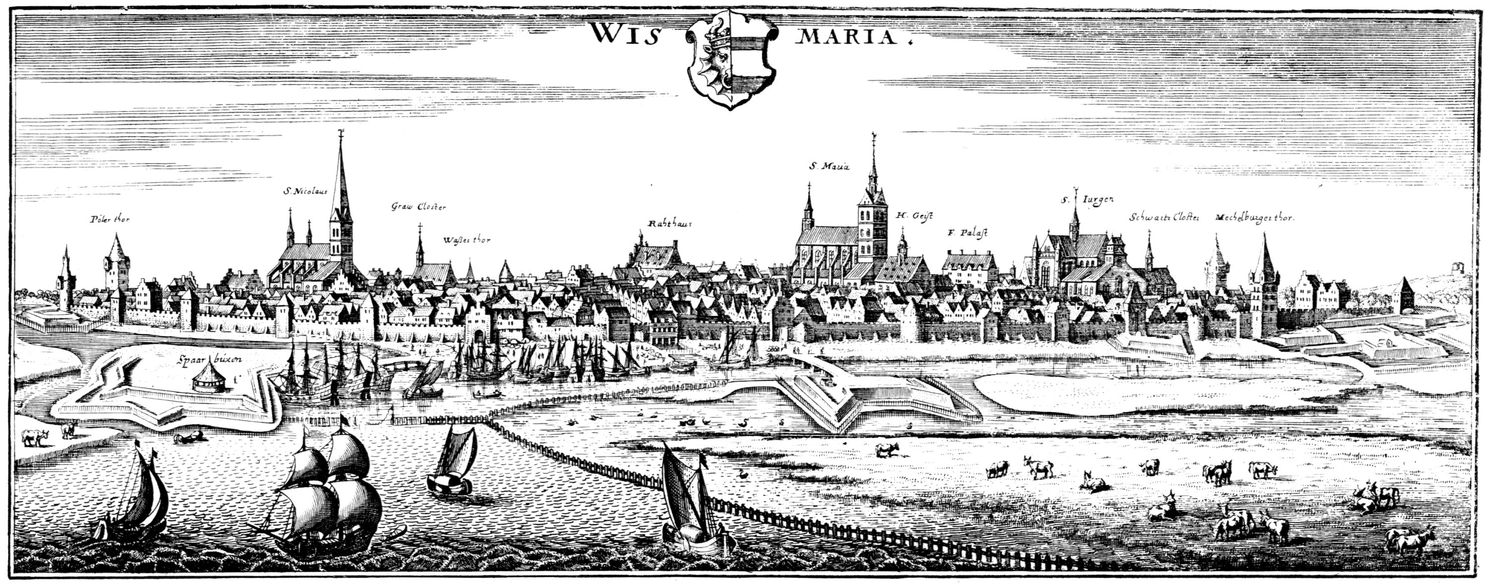 Merian sen., Matthäus: Wismar (Mecklenburg, Germany), view from northwest (from Merians »Topographia Germaniae«, Bd.14: »Topographia Saxoniae Inferioris« (Lower Saxony), Frankfurt am Main 1653